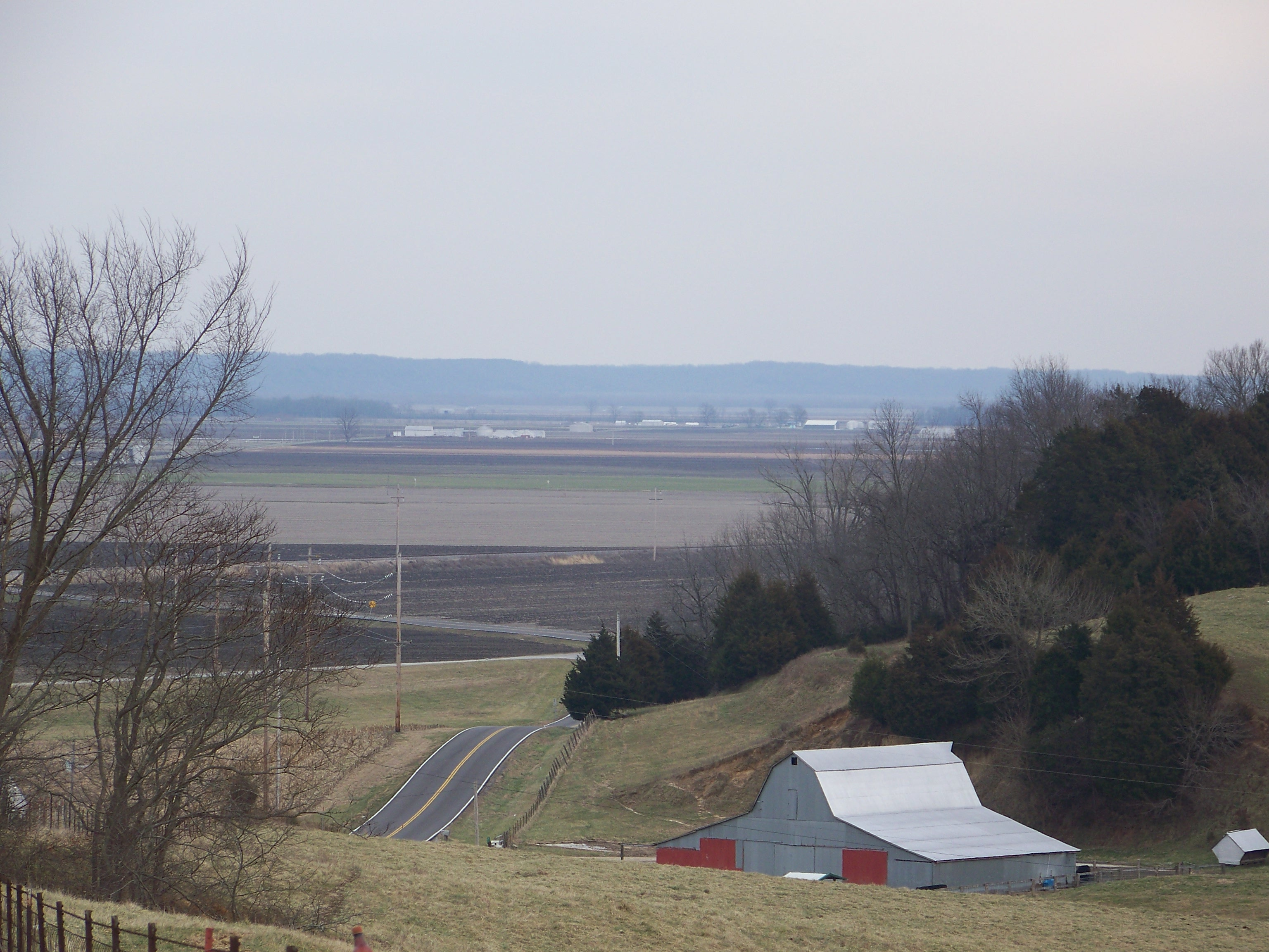 Bois Brule Bottoms, Winter, 2010